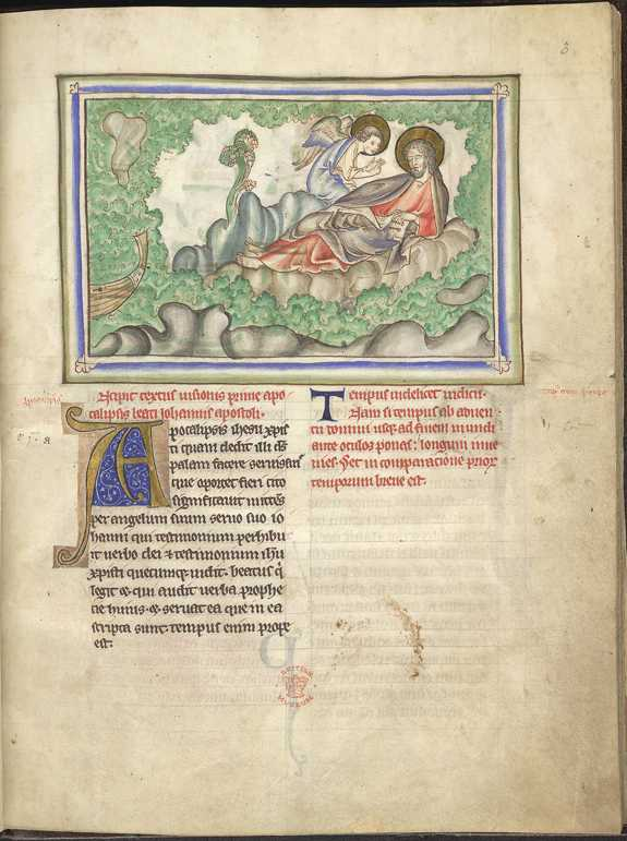 Folio 3 recto of a Apocalypse manuscript